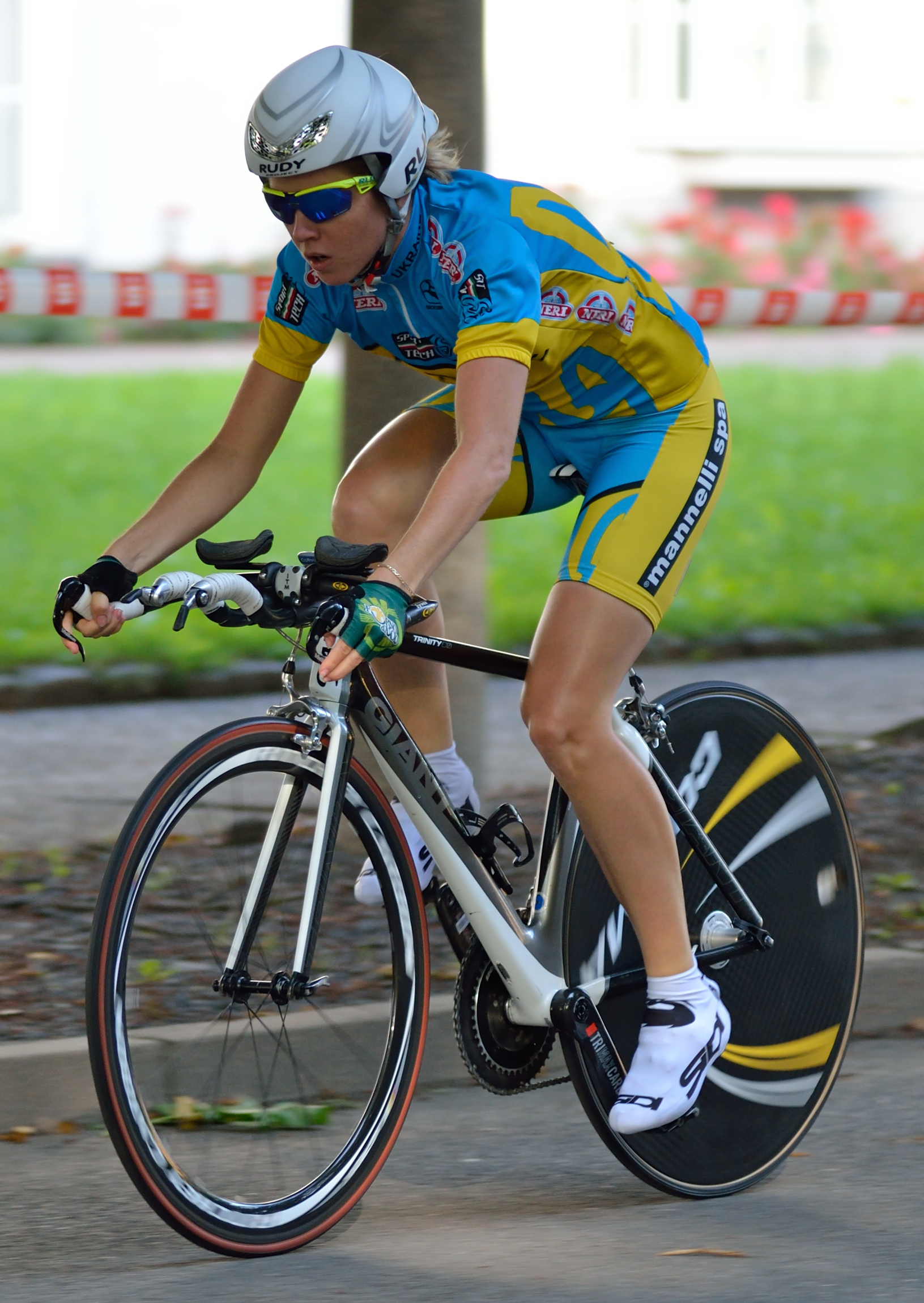 Tetiana Ryabchenko from the National Team Ukraine during the Women's Tour of Thuringia 2012 in Zwickau, Germany.